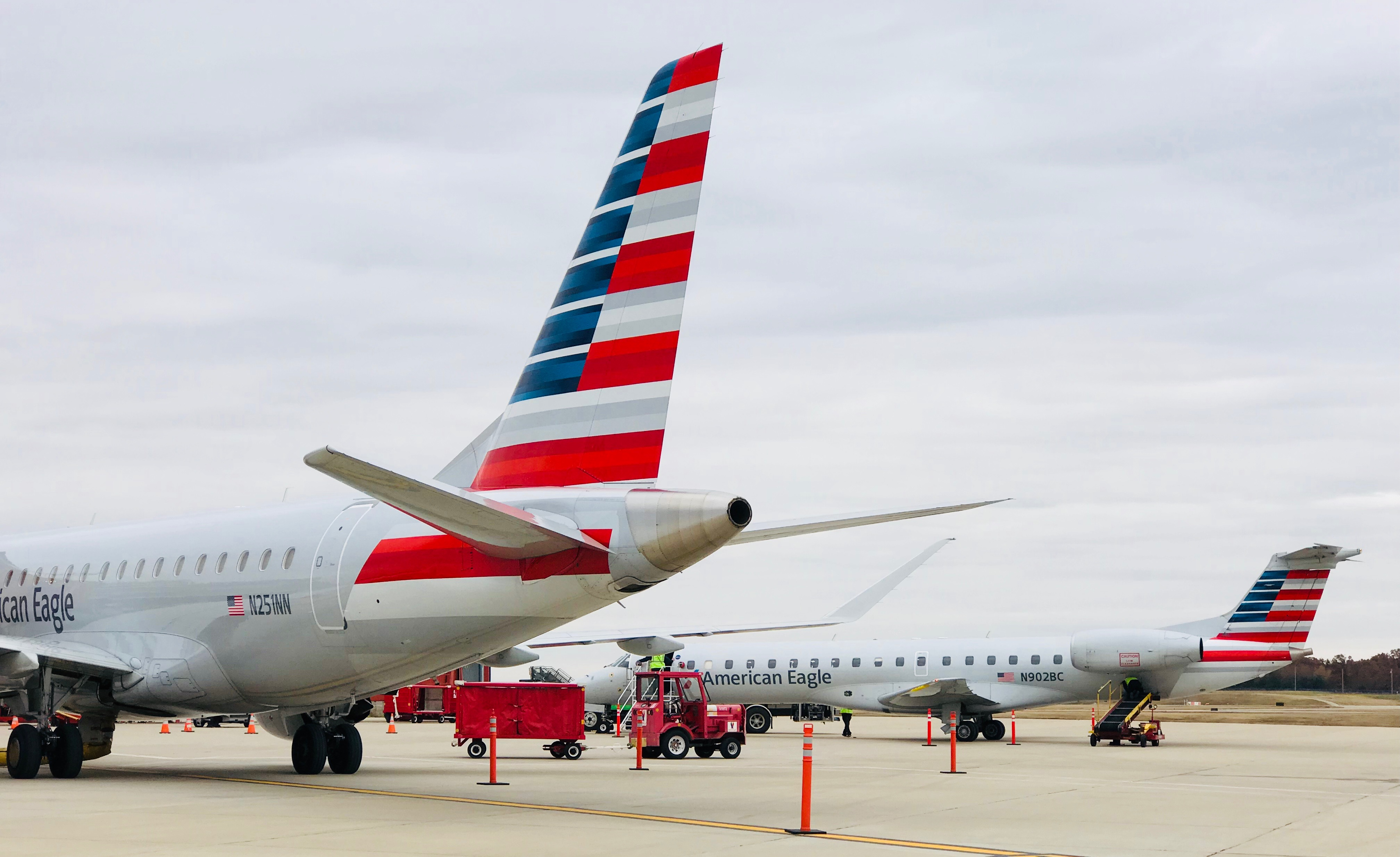 An American Eagle (Envoy Air) ERJ-175 and ERJ-145 both await returns to Dallas/Fort Worth (2017)